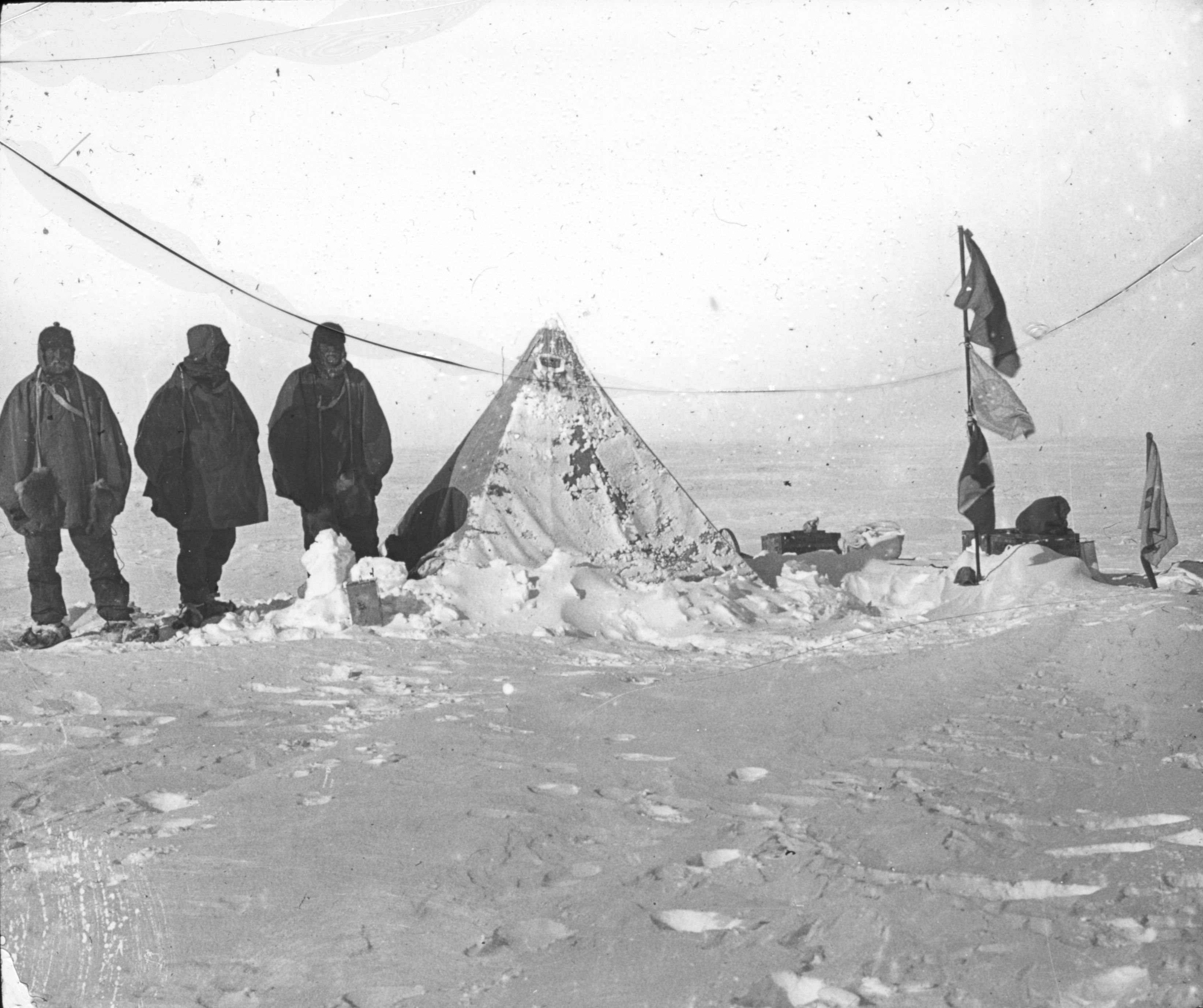 Photographs of the Nimrod Expedition (1907-09) to the Antarctic, led by Ernest Shackleton